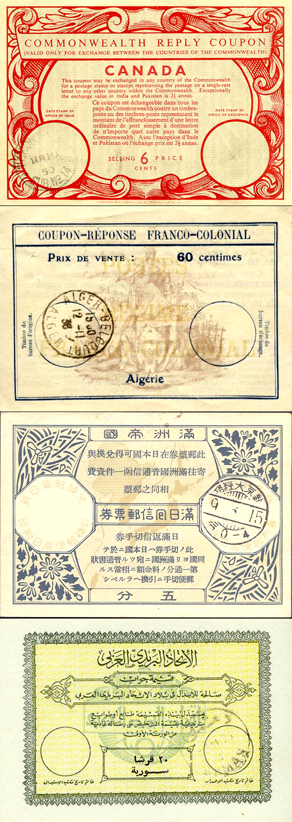 Colonial types reply coupons of Canada (UK), Algerie (France), Manchukuo (Japan) and Syria (Arab Postal Union), 1930s-1950s